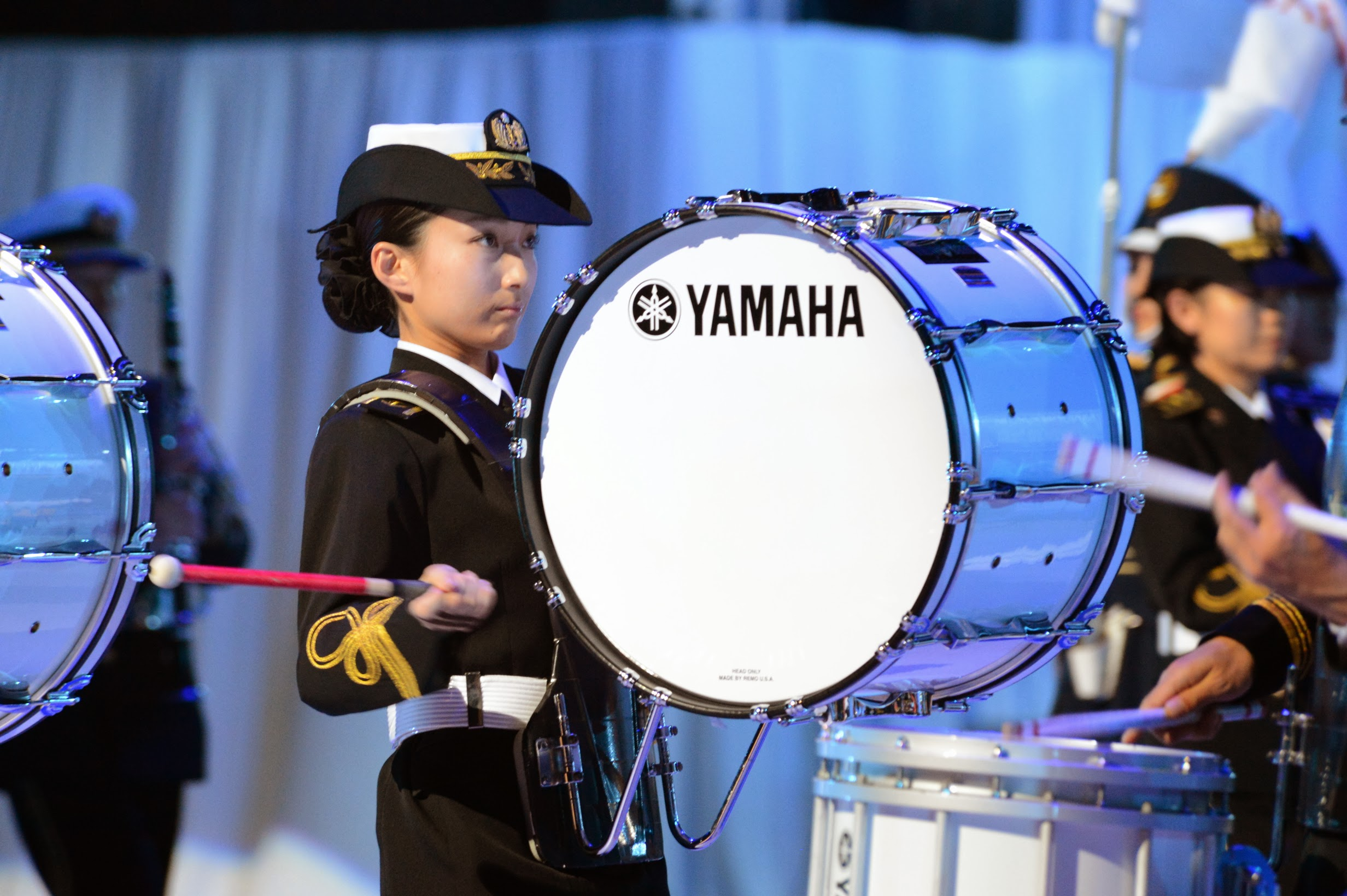 Title TS3_5404.JPG Album 平成25年度自衛隊音楽まつり Photographs by the Japan Ground Self-Defense Force